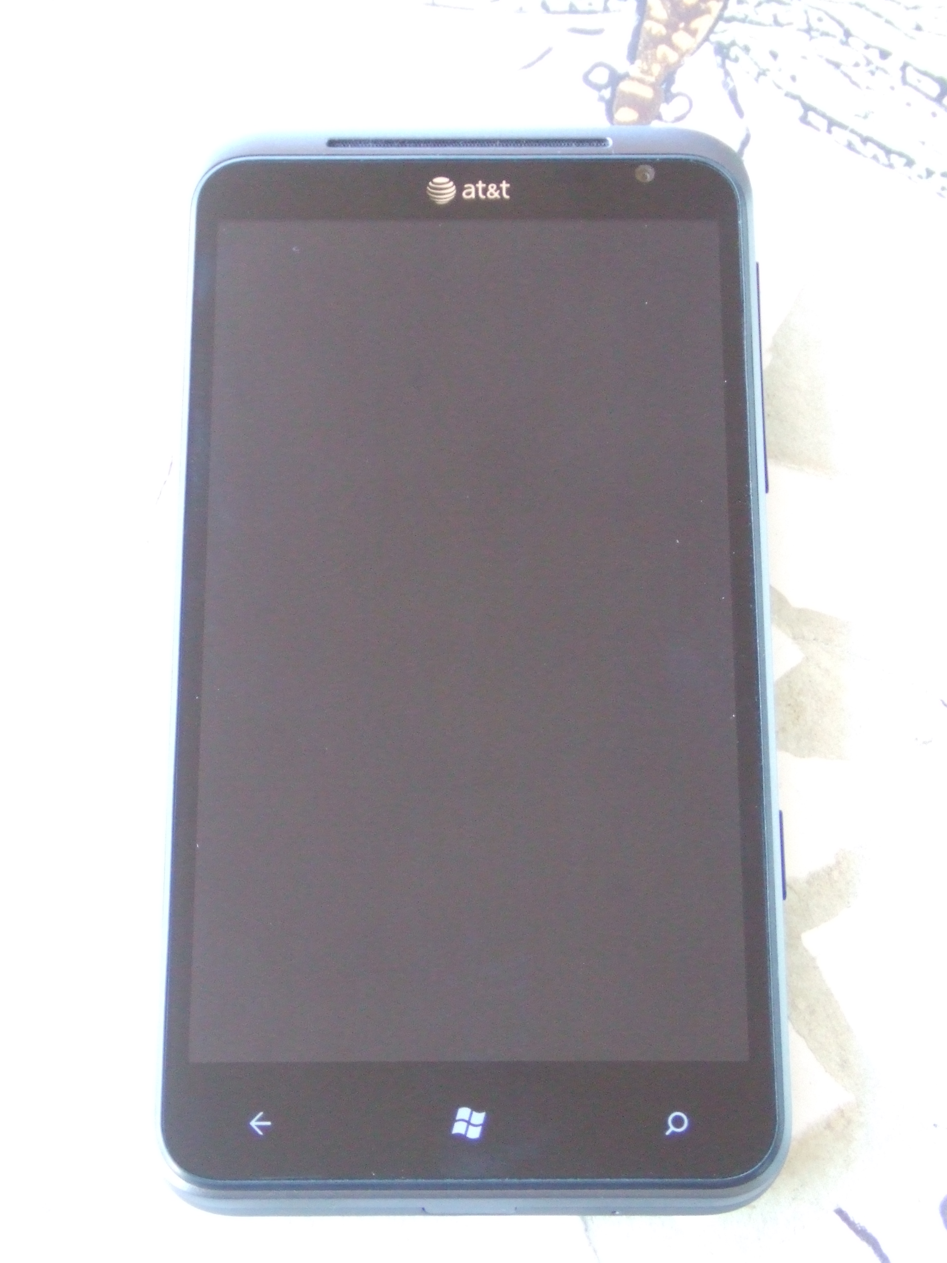 An AT&T Mobility Branded HTC Titan Smartphone